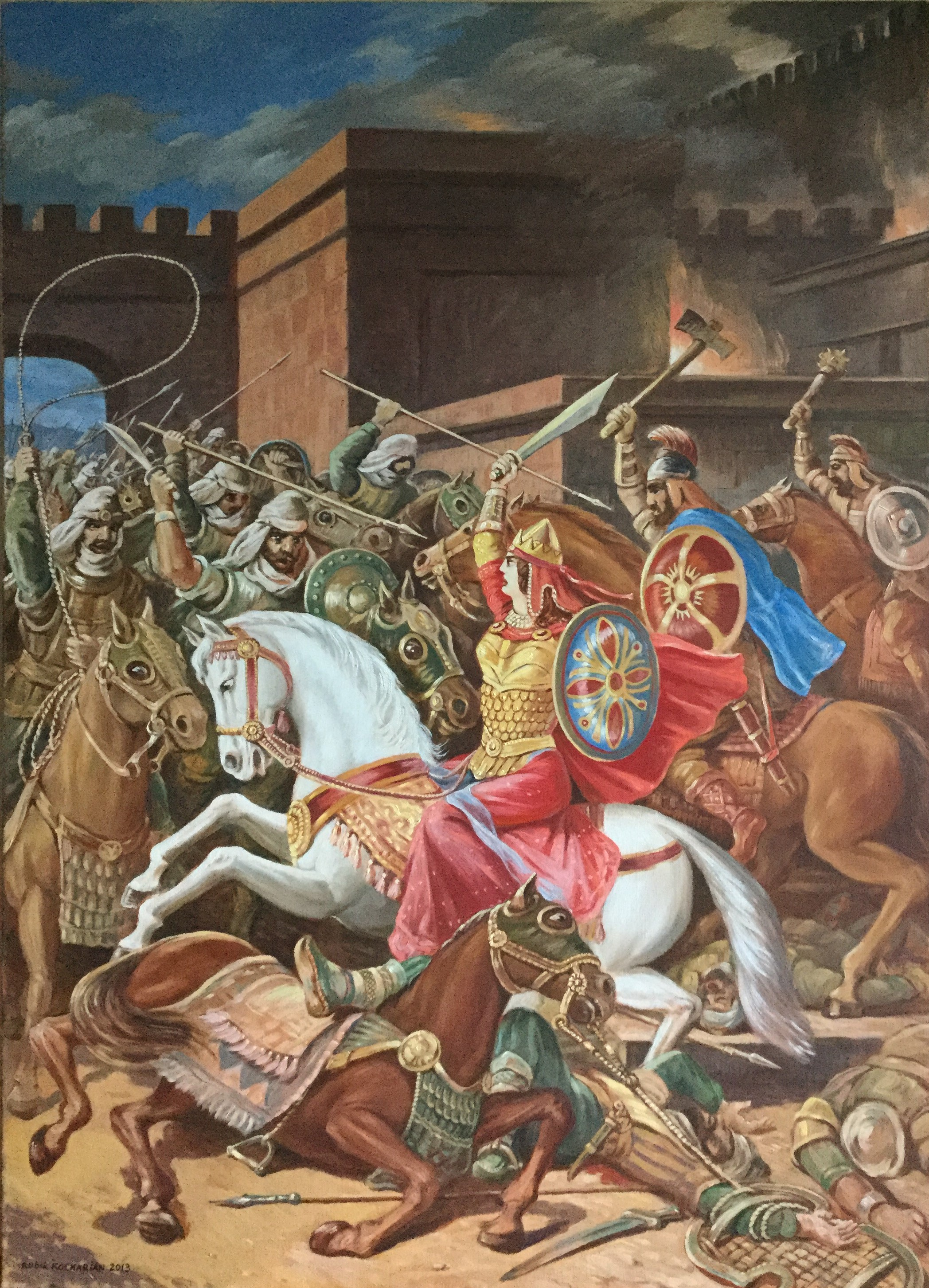 "Last Battle of Queen Pharandzem", 32"x44", oil on linen (2013)